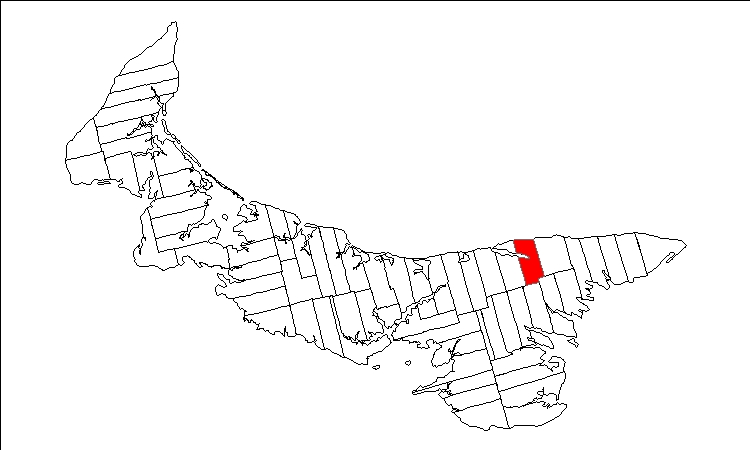 Public domain map of Prince Edward Island created by User:Plasma east with data courtesy of Geogratis, modified to show townships. Released under GFDL (self).